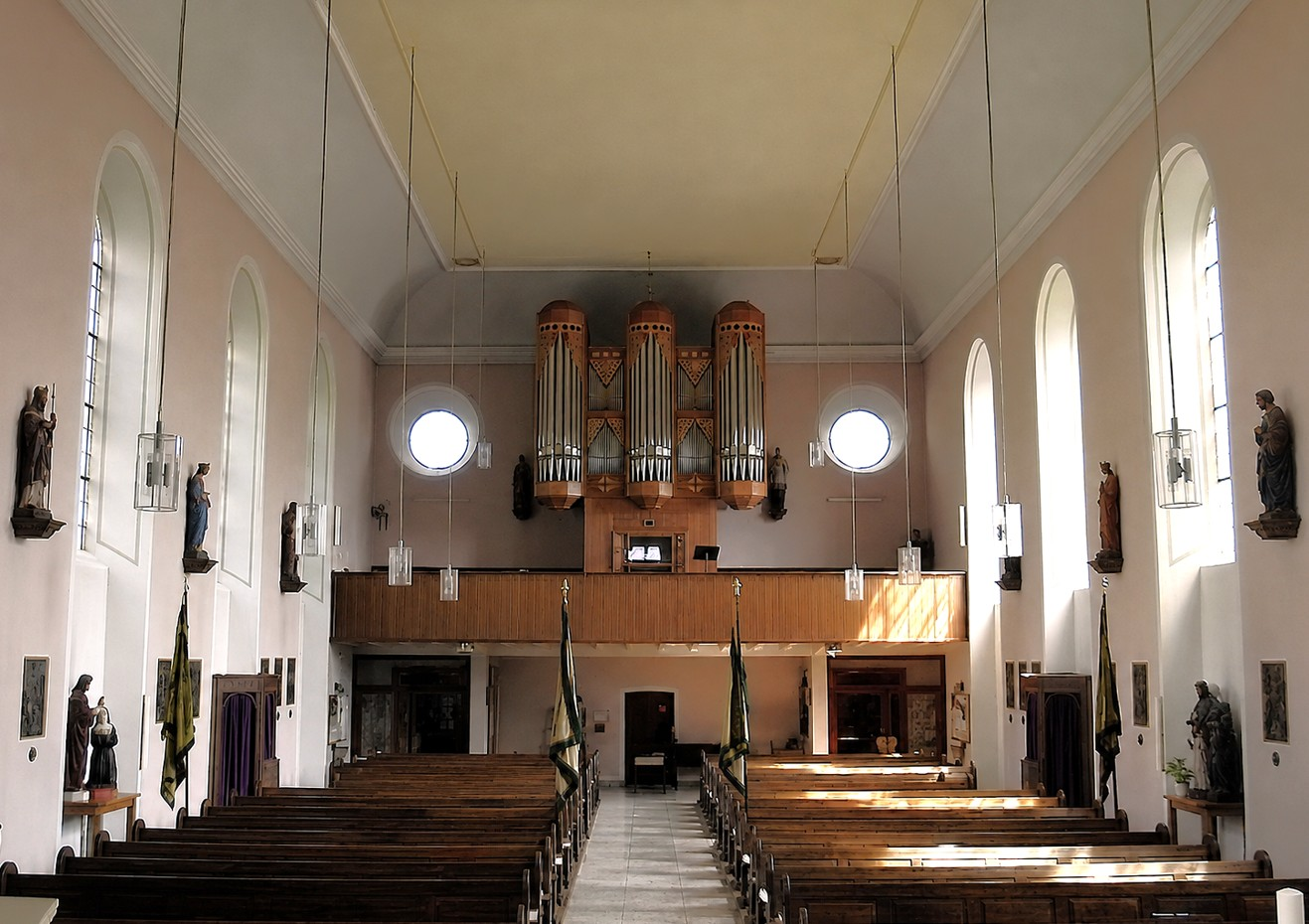 Interior of the roman catholic church in Besch, Saarland, Germany